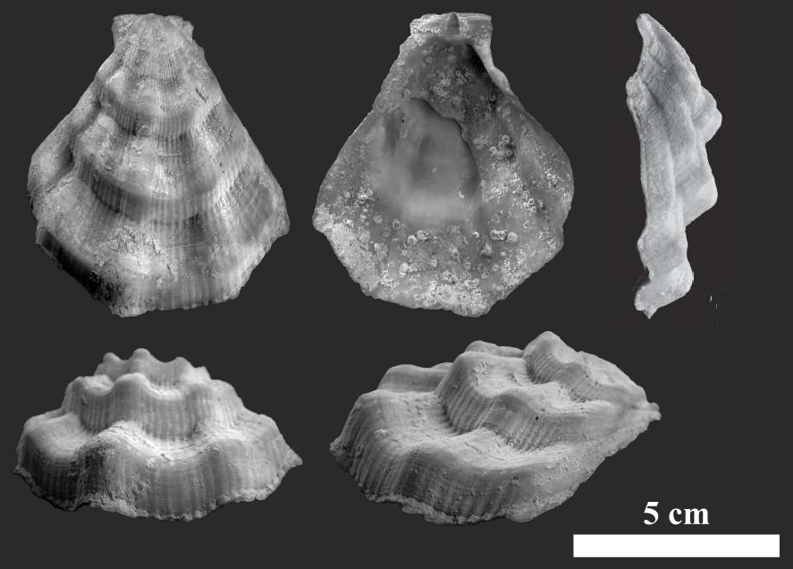 Swiftopecten djoserus Yoshimura It is the image i photographed three-dimensionally from various directions about the holotype specimen of Swiftopecten djoserus Yoshimura. In particular, it captures the stepped irregularities that are characteristic of this shellfish.